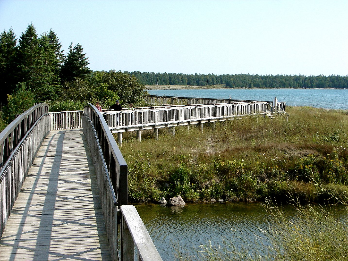 Providence Bay (Central Manitoulin), Ontario, Canada